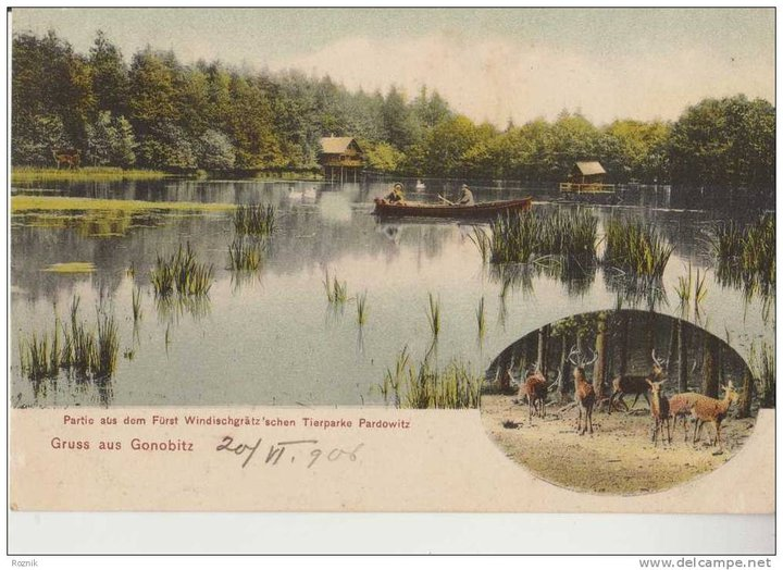 duke Windischgraetz's pond near Oplotnica, Slovenia